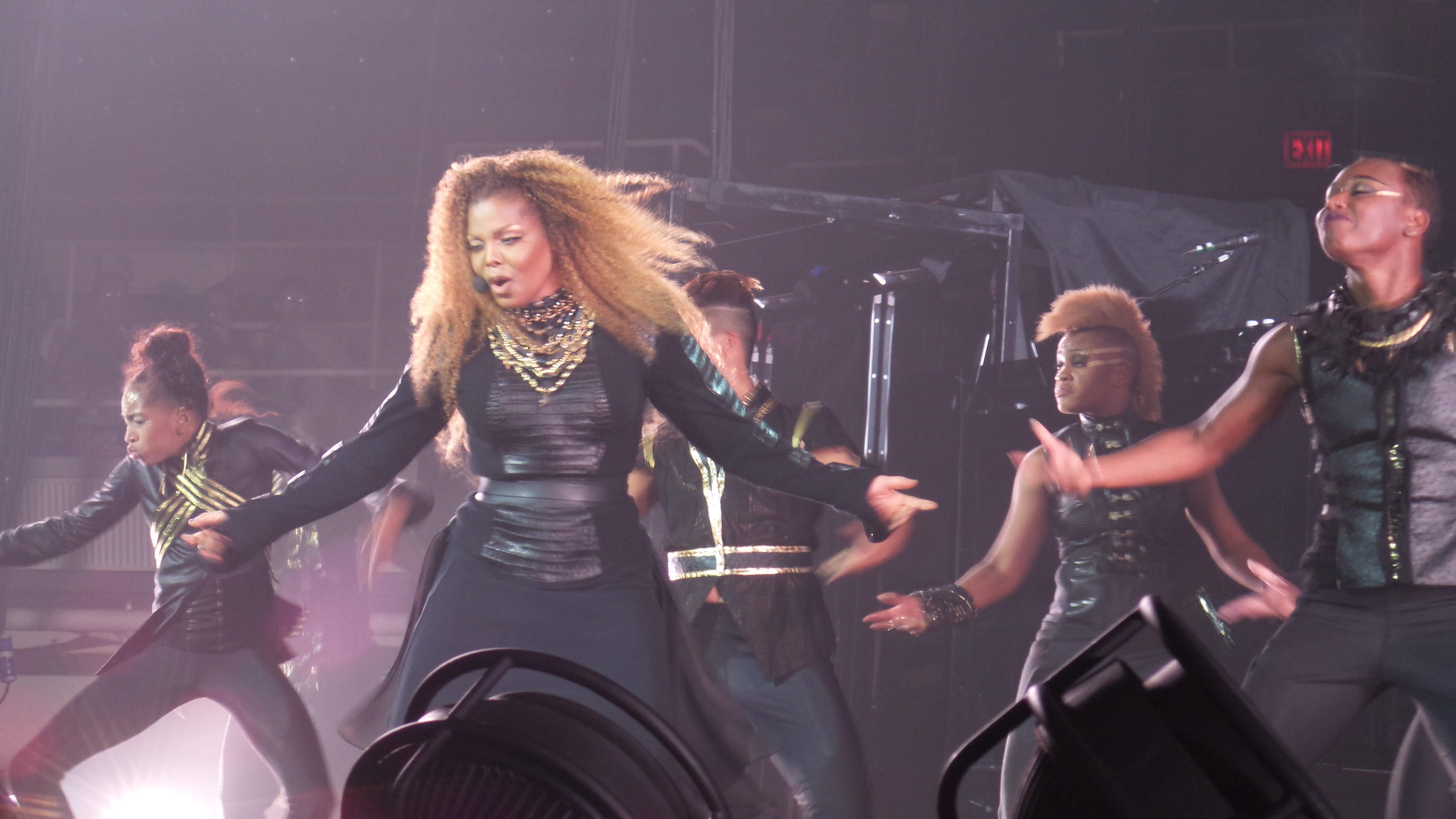 Janet Jackson Unbreakable Tour, Honolulu, Hawaii 2015